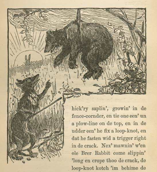 Br'er Fox and Br'er Bear from Uncle Remus, His Songs and His Sayings: The Folk-Lore of the Old Plantation, by Joel Chandler Harris, p. 101. Illustrations by Frederick S. Church and James H. Moser. New York: D. Appleton and Company, 1881.